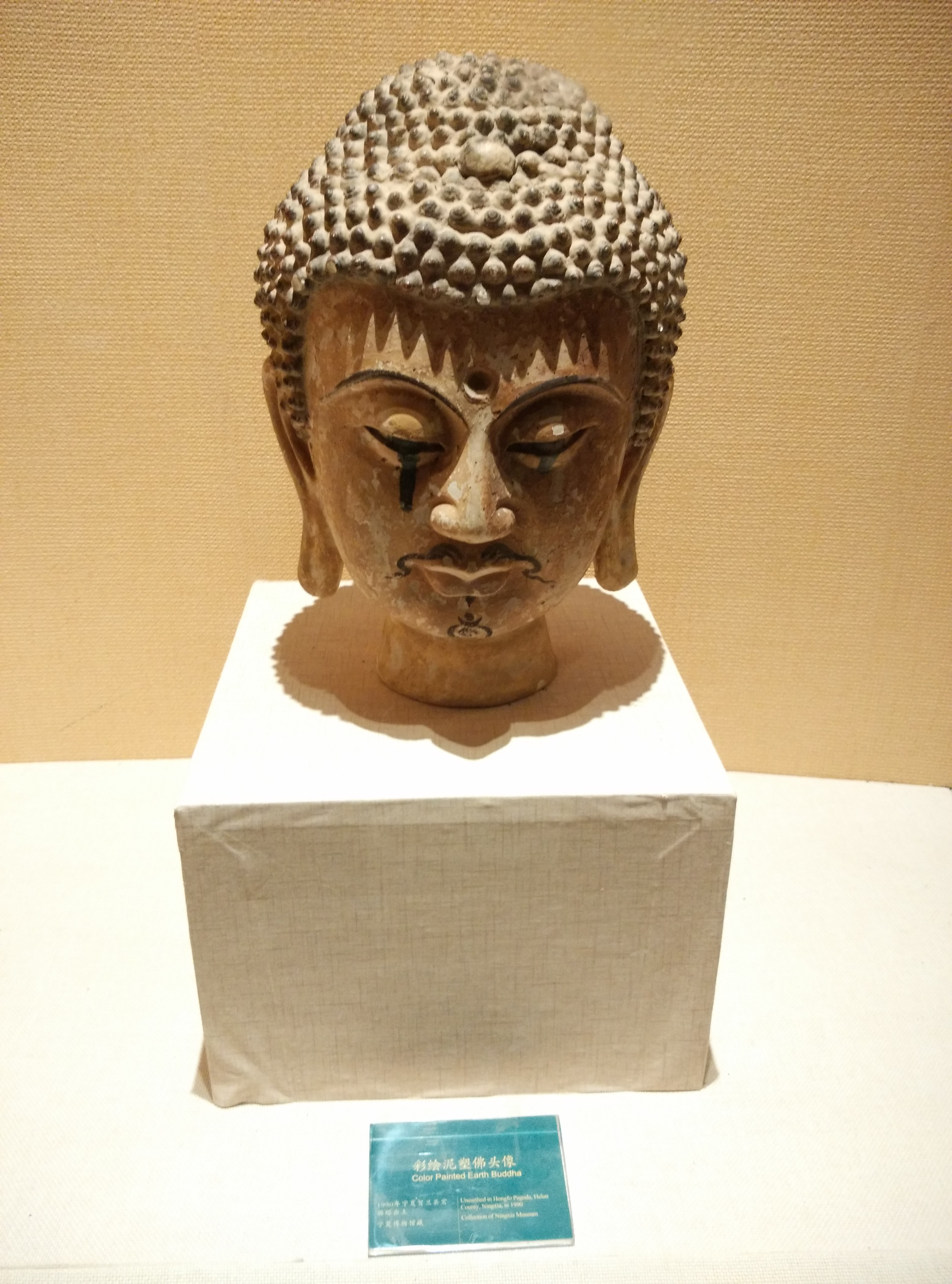 宏佛塔的塔室中出土的佛头